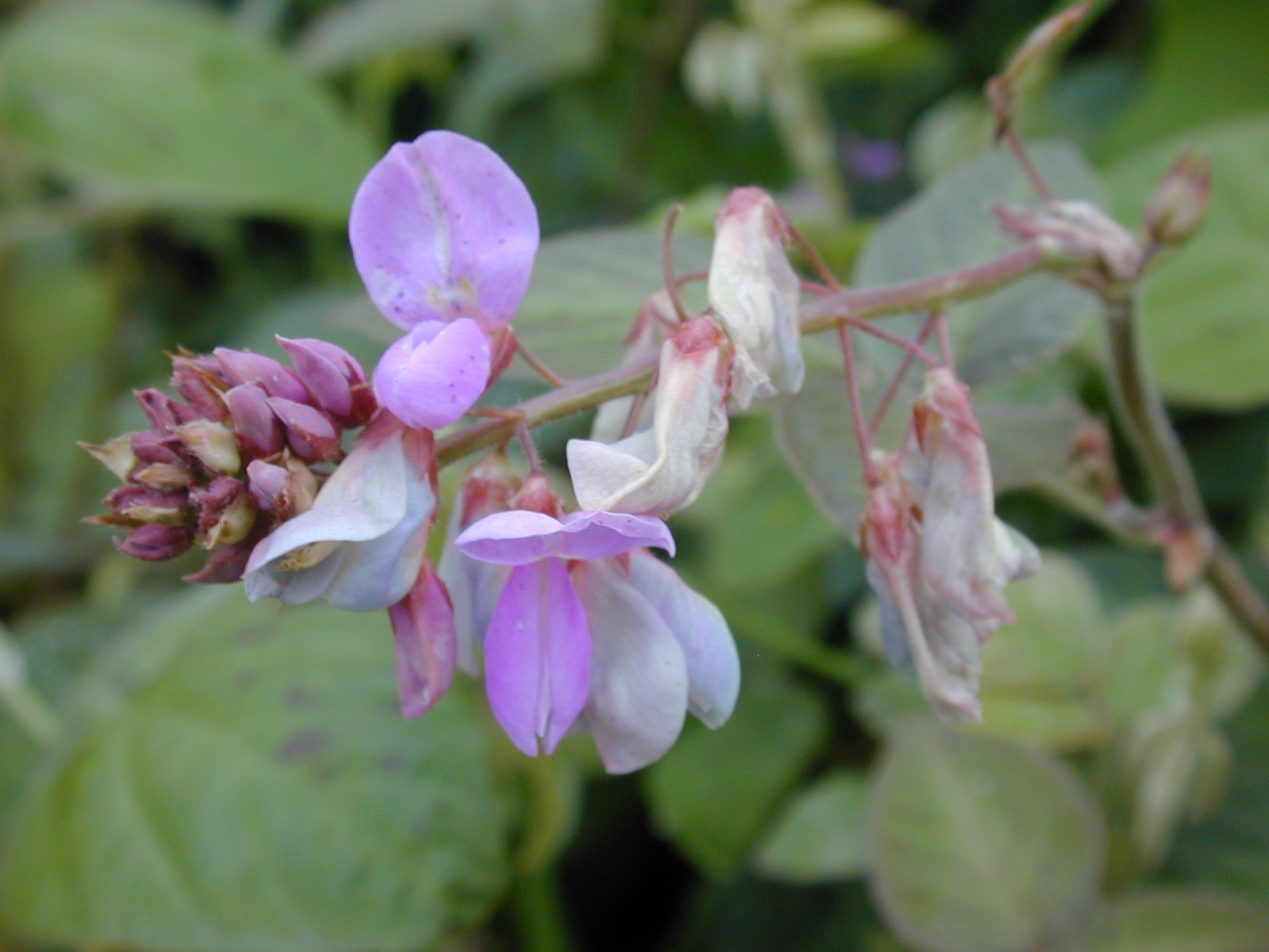 Desmodium intortum (flowers and leaves). Location: Maui, Makawao Forest Reserve